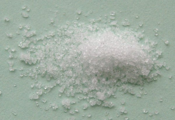 adamanatane powder